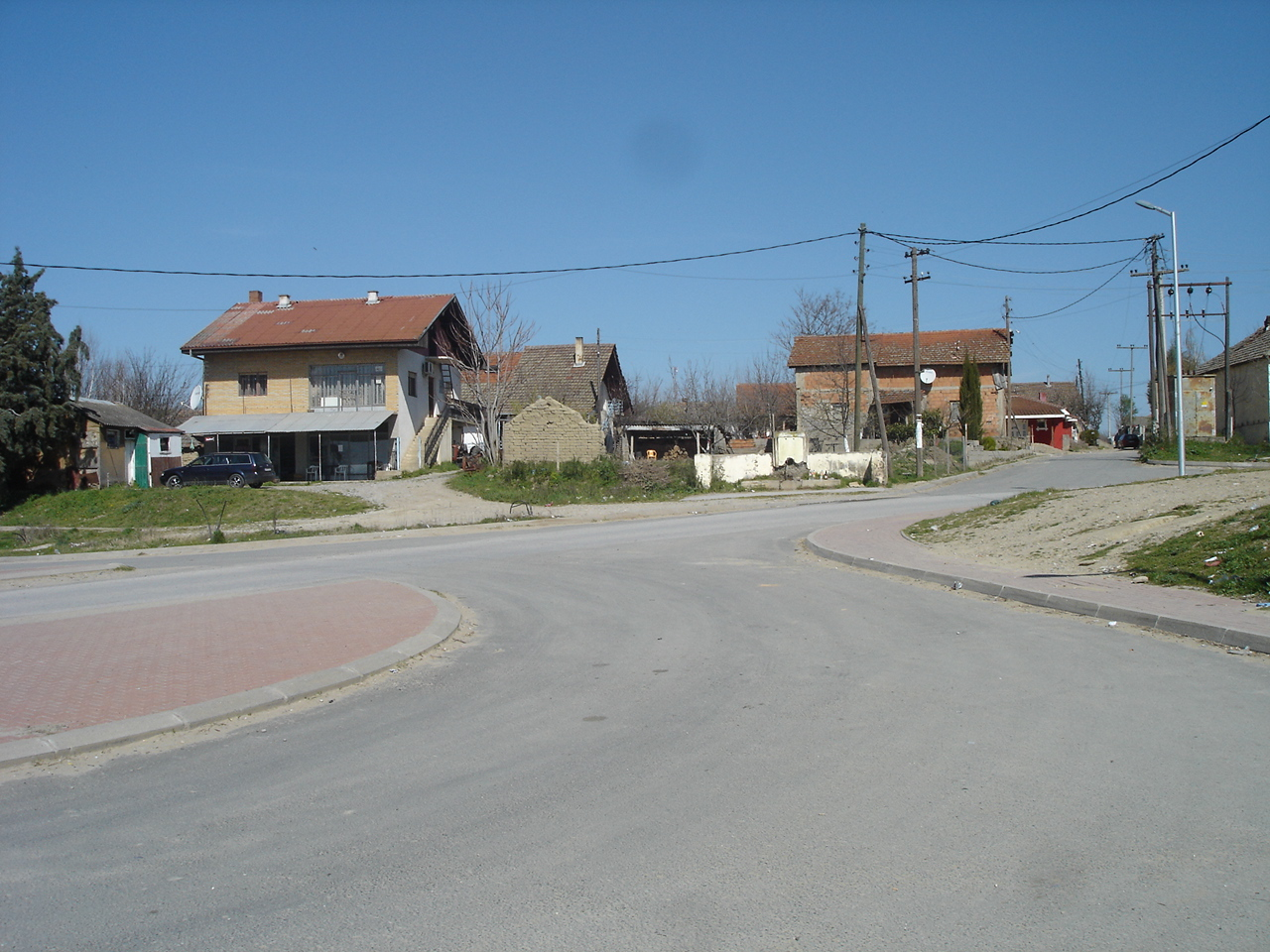 Center of the village of Krivolak, Negotino Municipality, Macedonia